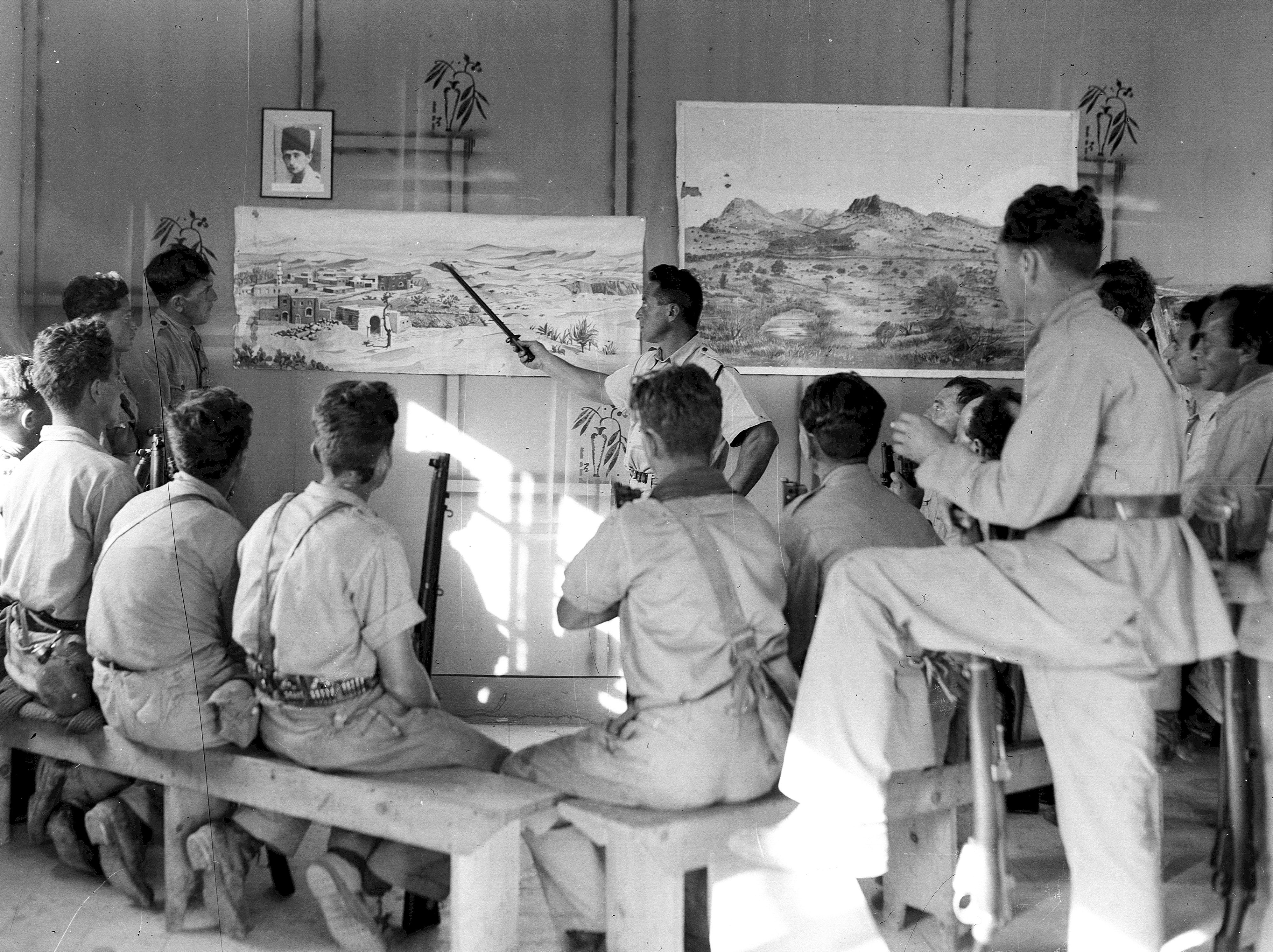 THE FIRST COURSE FOR "HAGANA" INSTRUCTORS AT "PINAT HASHOMER" NEAR SHEIKH ABREIK. IN THE PHOTO, A TOPOGRAPHY LESSON. הקורס הראשון למדריכי ארגון ההגנה הנערך בפינת השומר, סמוך לשייח אבריק. בצילום, שיעור טופוגרפיה.